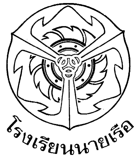 Emblem of the Royal Thai Naval Academy, published in the Royal Gazette in 1984.